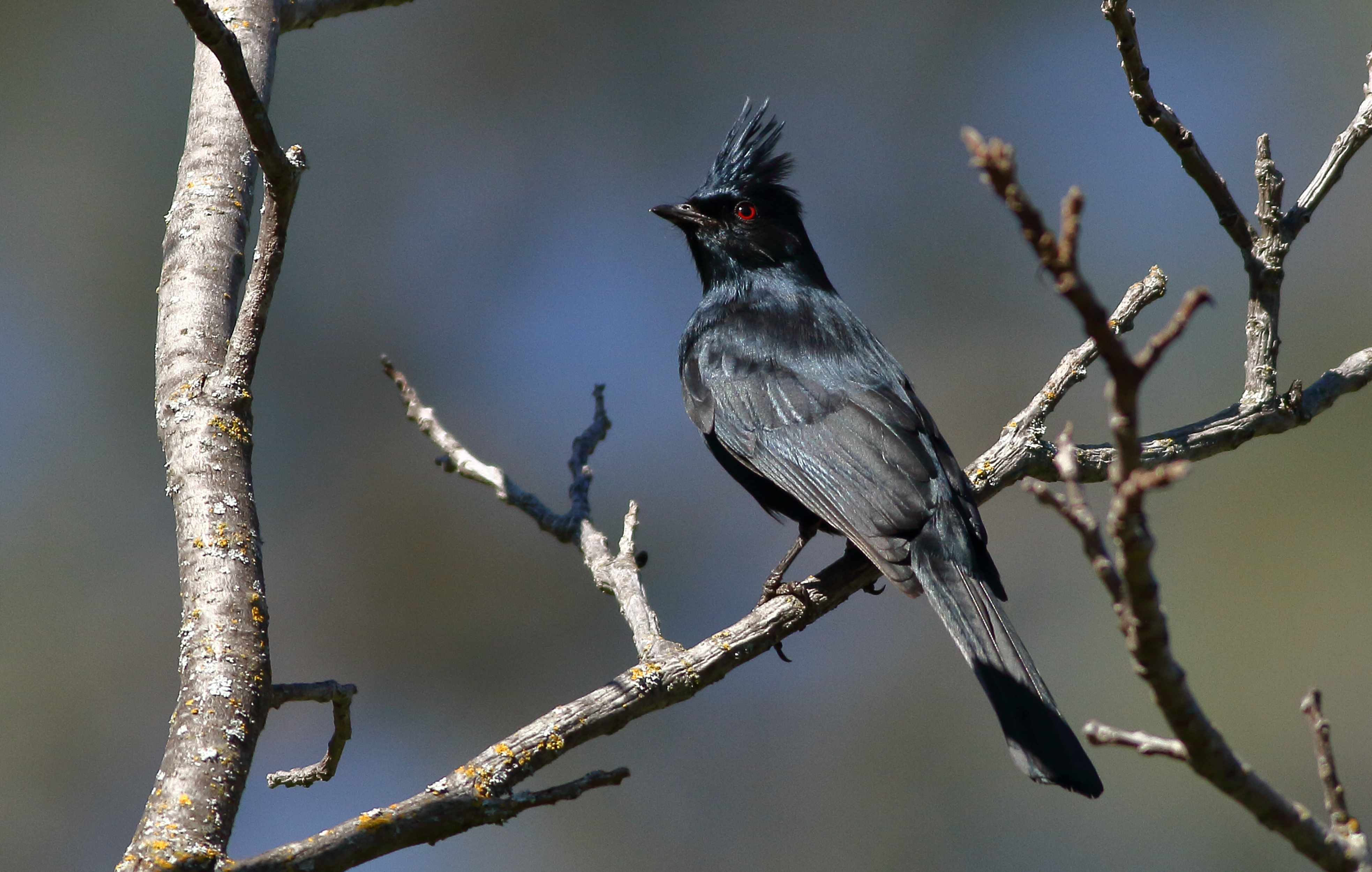 Phainopepla near Winters, California